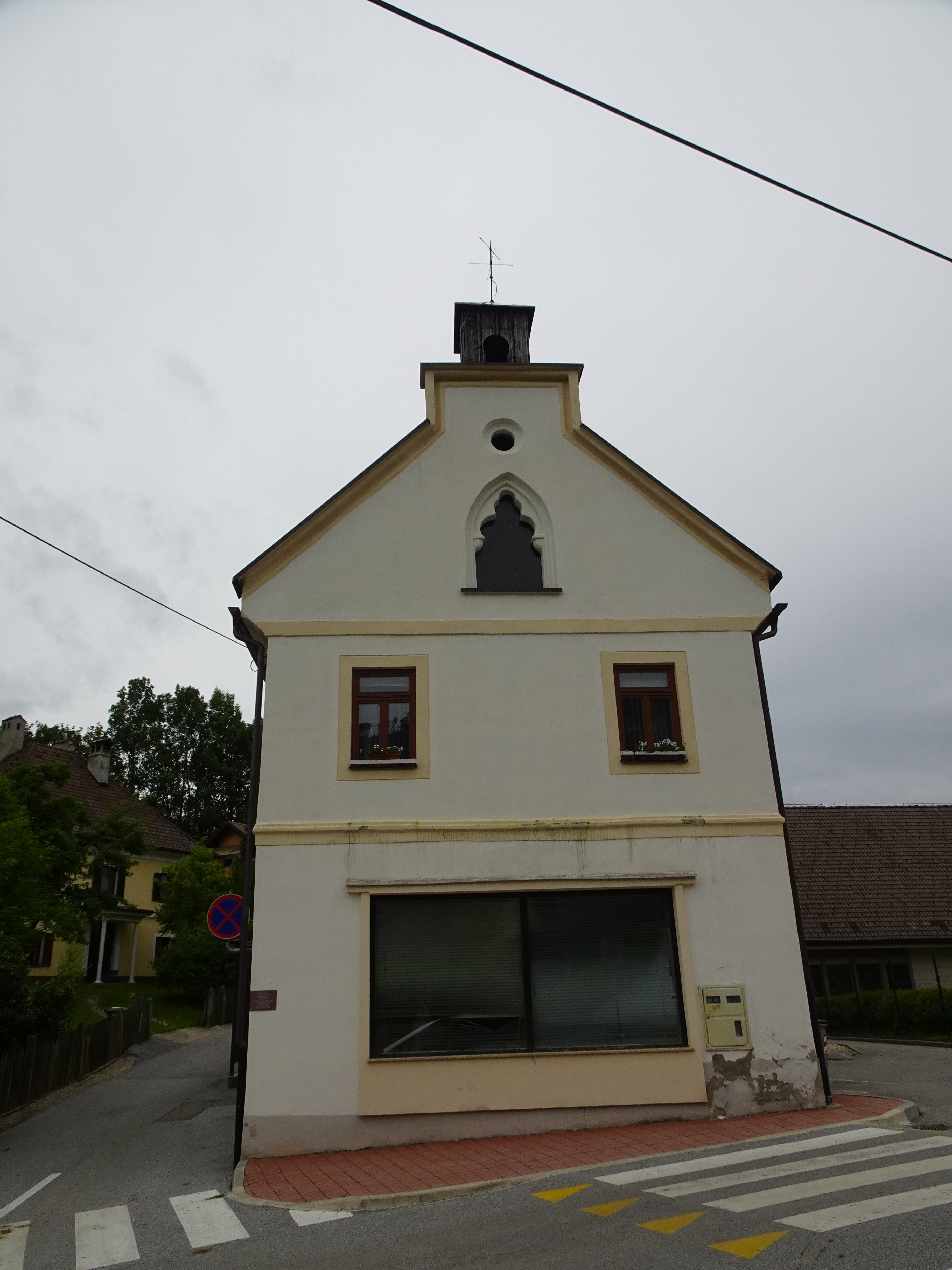 Frlescimer, Leše, Prevalje